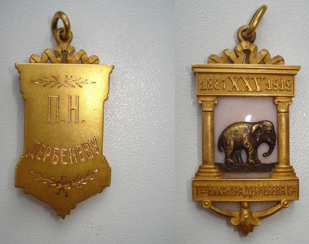 Юбилейная эмблема "Мануфактура Никонор Дербенёв и Сыновья 25 лет"